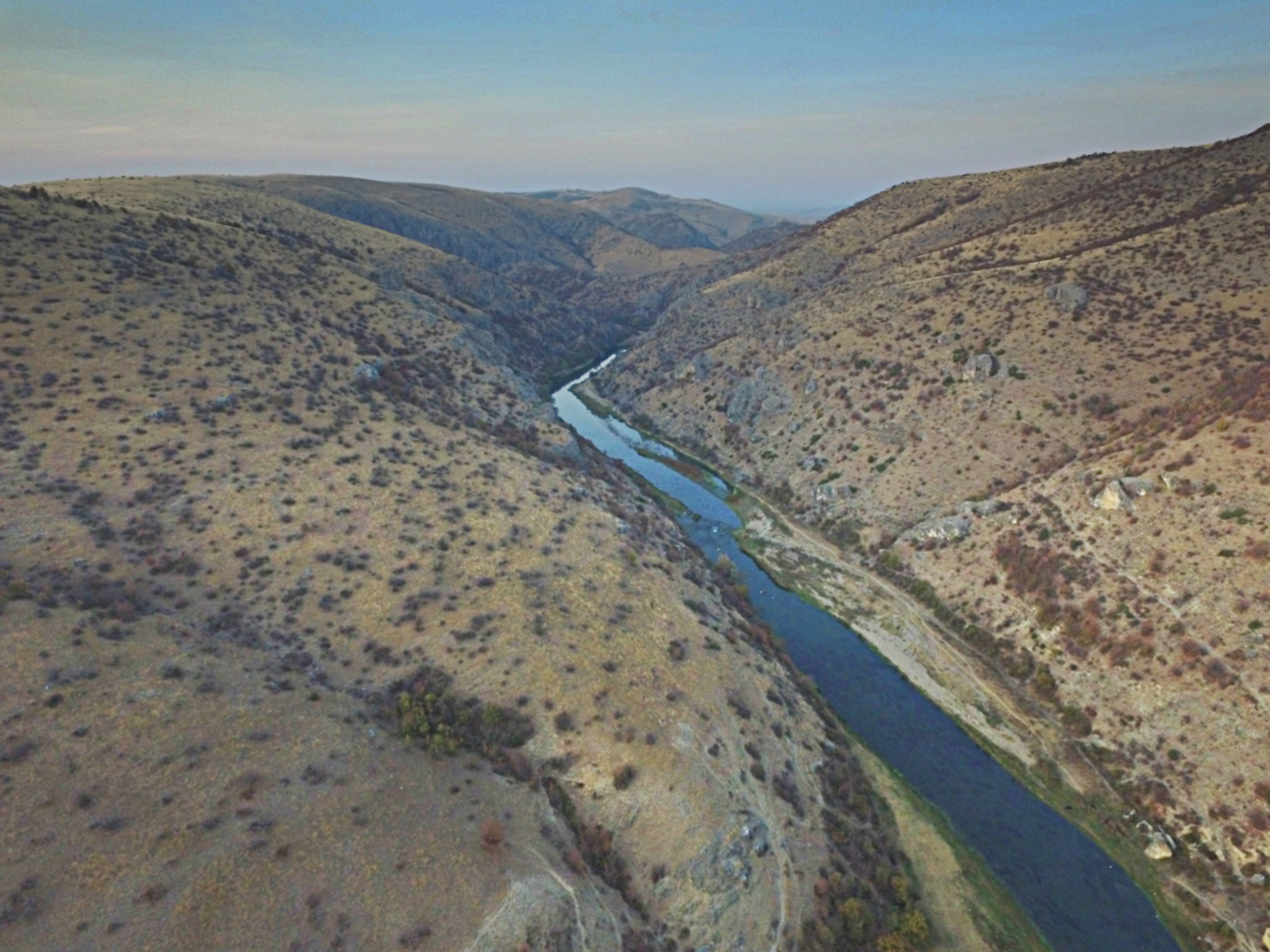 Bislimska canyon from the air